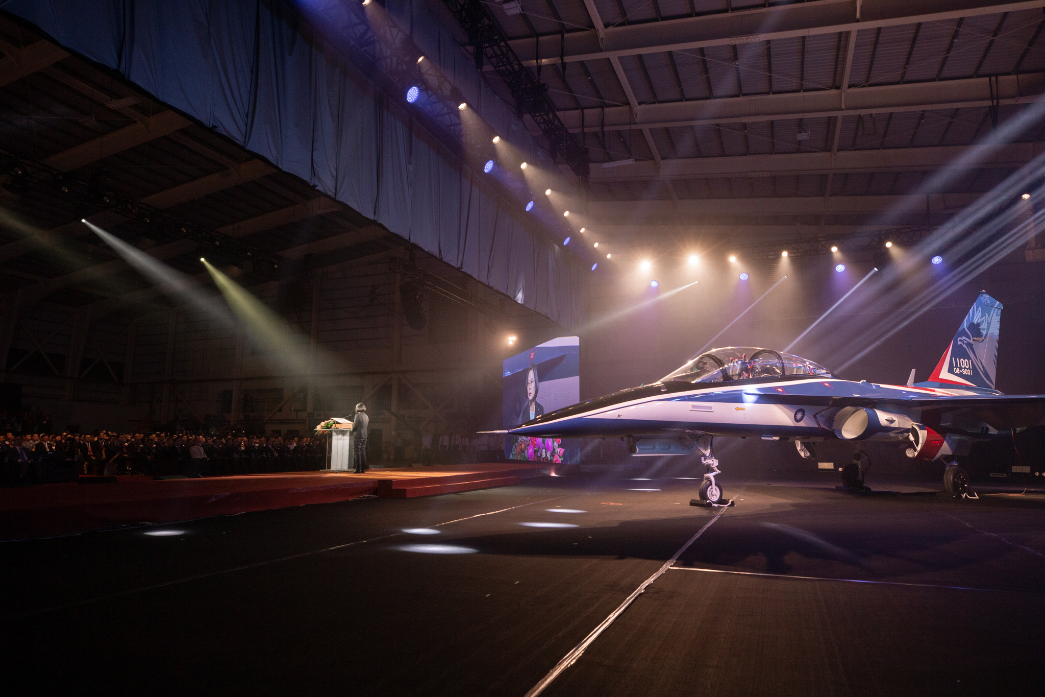 Official Photo by Mori / Office of the President